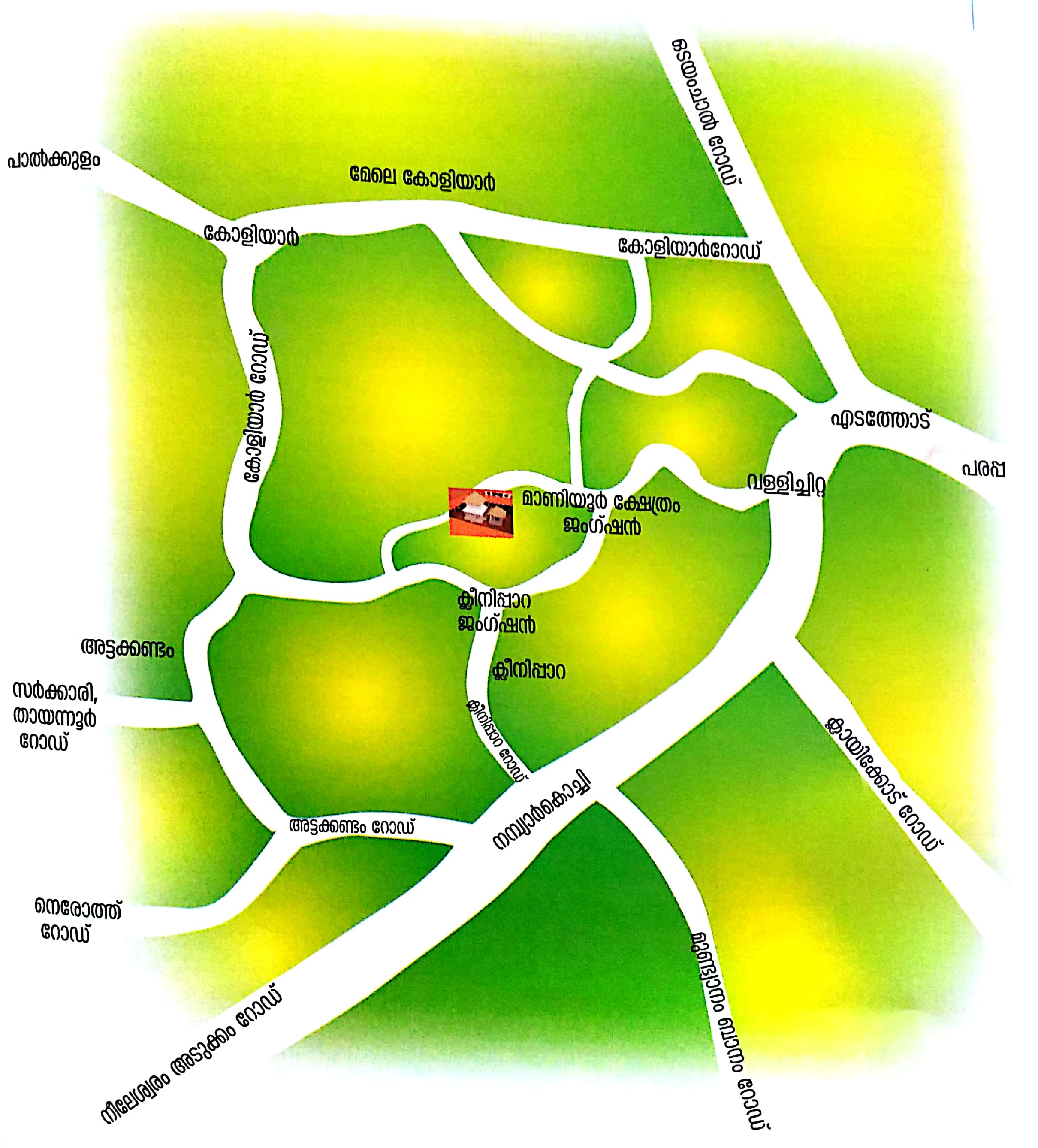 Maniyoor Shiva Temple